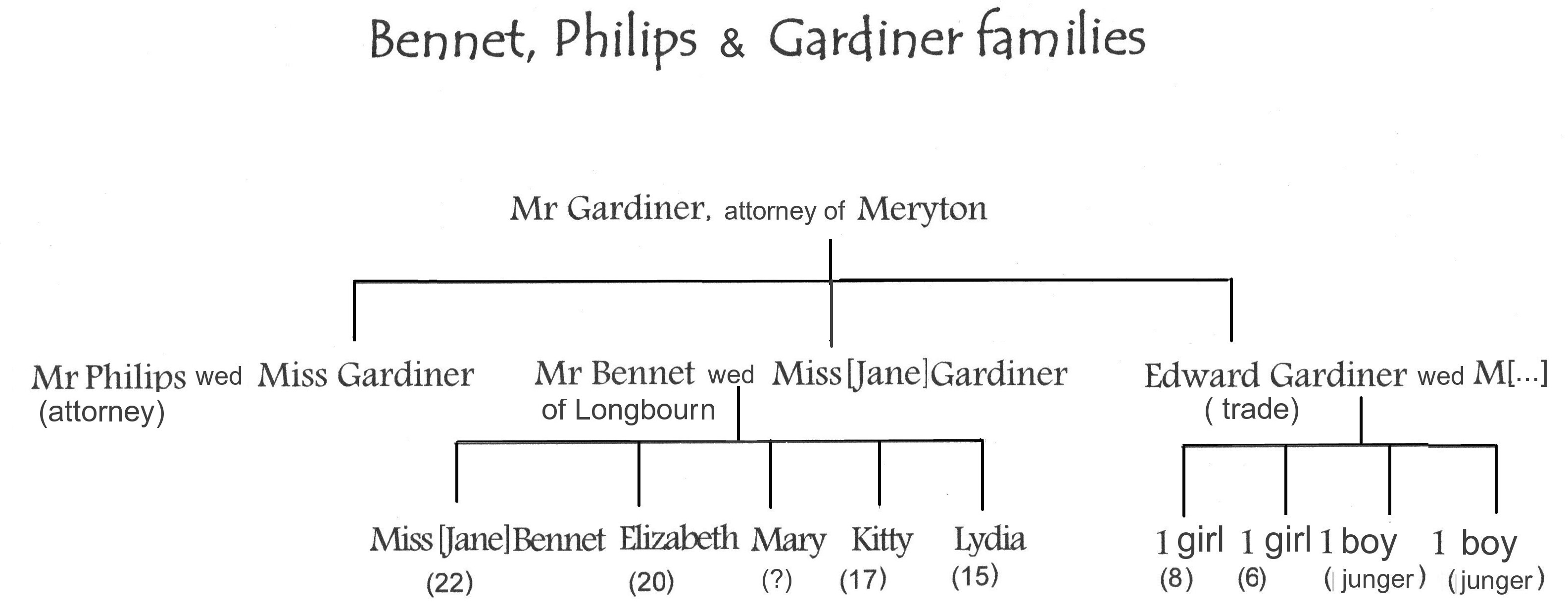 Connections between the Bennets, the Philips and the Gardiners, in Jane Austen's Pride and Prejudice"